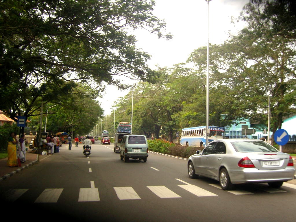 A Road in Thiruvananthapuram City in Kerala, India.